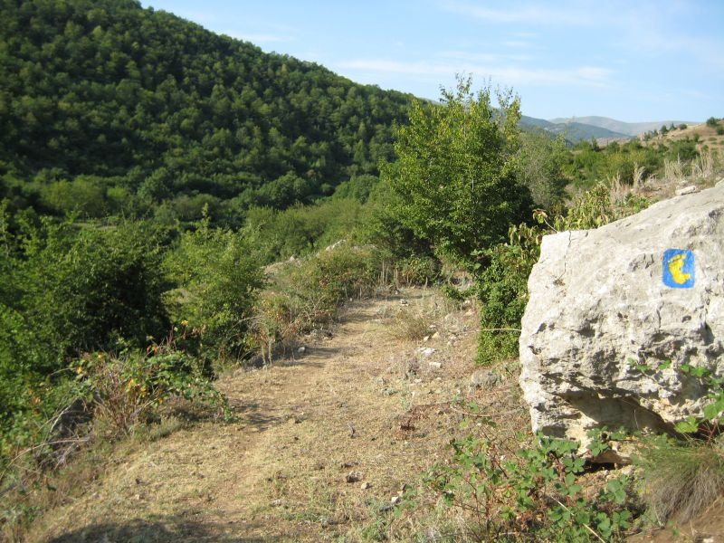 Janapar trail near Karintak Village, with painted trail marking showing.